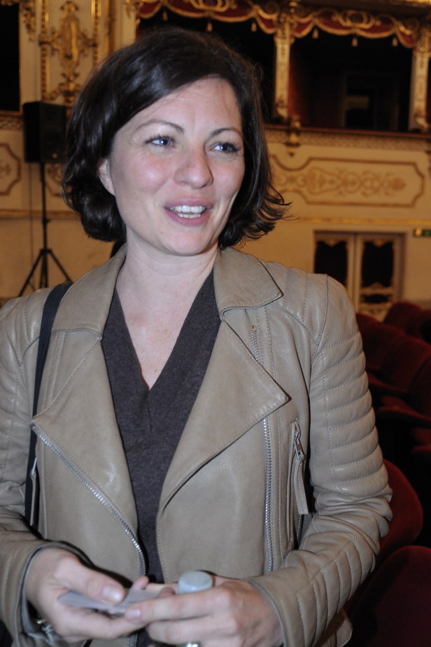 Reggio Emilia, Italy: Magnum Night at the Valli Theater in May 2014